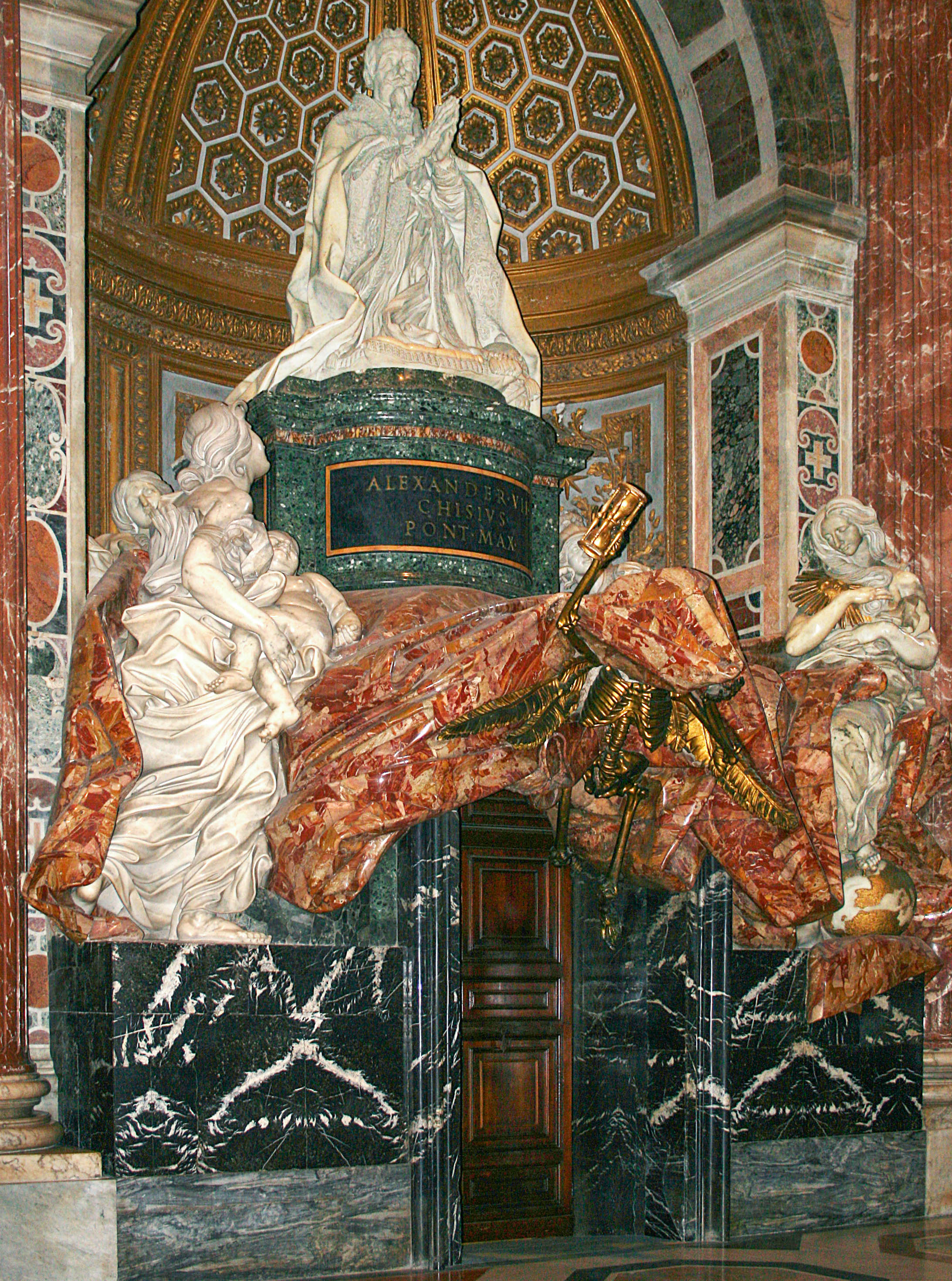 Tombstone of Pope Alexander VII, St. Peter's Basilica, Vatican (1702) - Work of Gian Lorenzo Bernini (1598–1680).